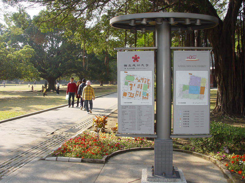 Map of Kuang Fu Campus, National Cheng Kung University.